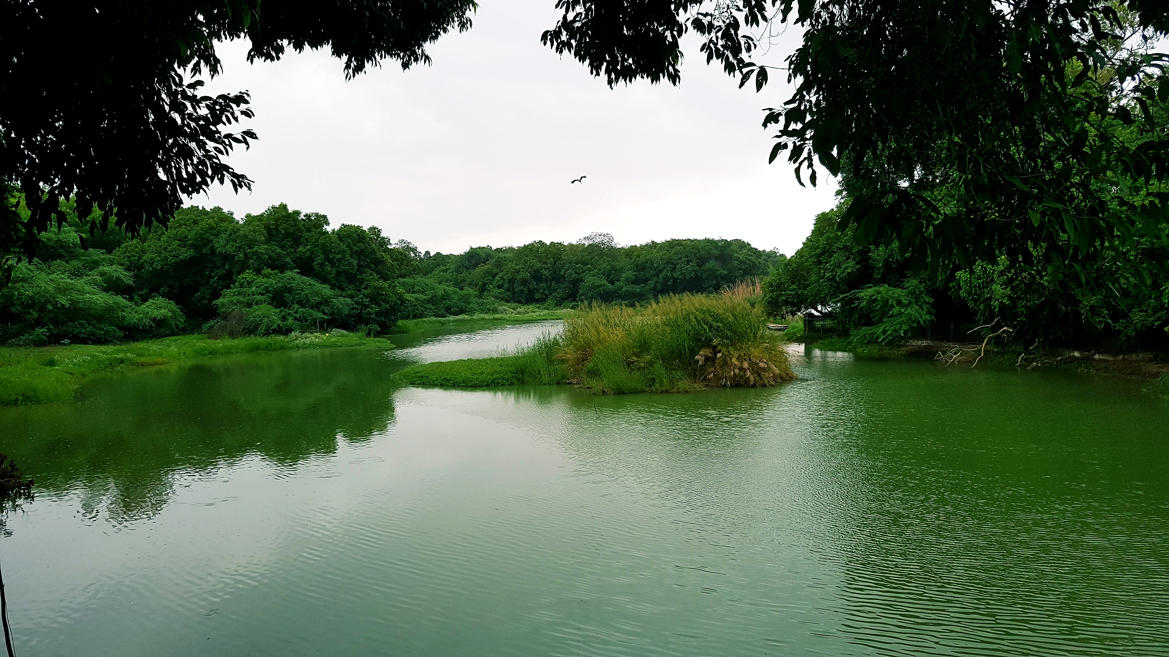 Zoo lake from entrance gate